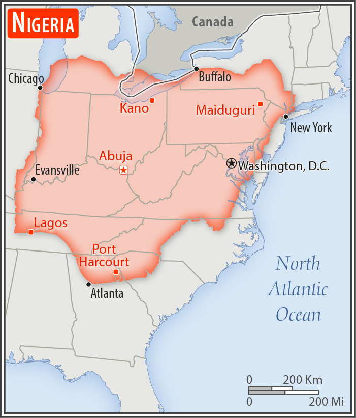 Comparison of the areas of two country. The area of Nigeria with biggest cities (red) overlay the area of the United States of America (gray background).